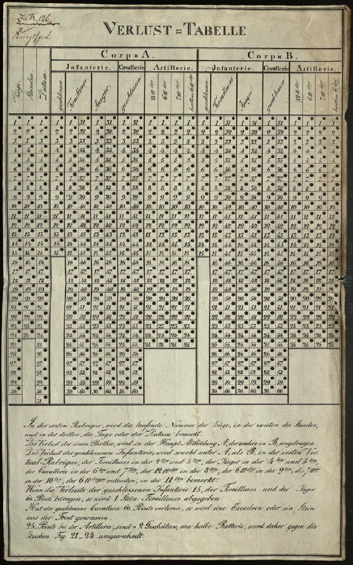 This page appears in a wargaming manual written in 1824. This table of dots is used to track casualties for various types of troops (infantry, cavalry, artillery, etc.).